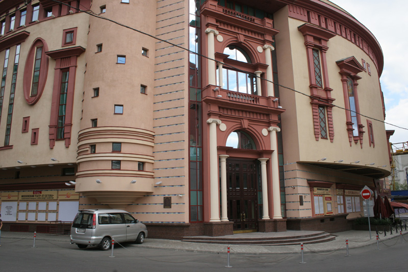 Moscow theatre «Et Cetera» under the leadership of Alexander Kalyagin